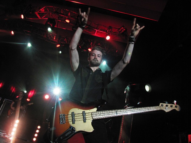 Jeremy Davis Paramore 8-16-2010